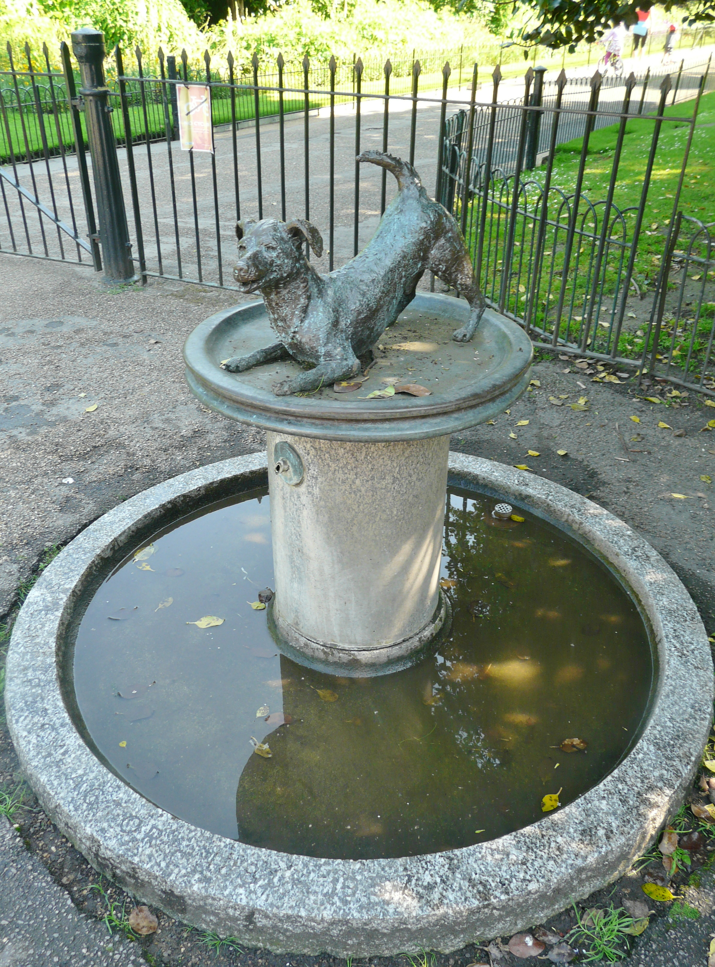 Memorial to Esme Percy (1961) by Silvia Gilley. Palace Gate, Kensington Gardens, London. The making of this file was supported by Wikimedia UK.